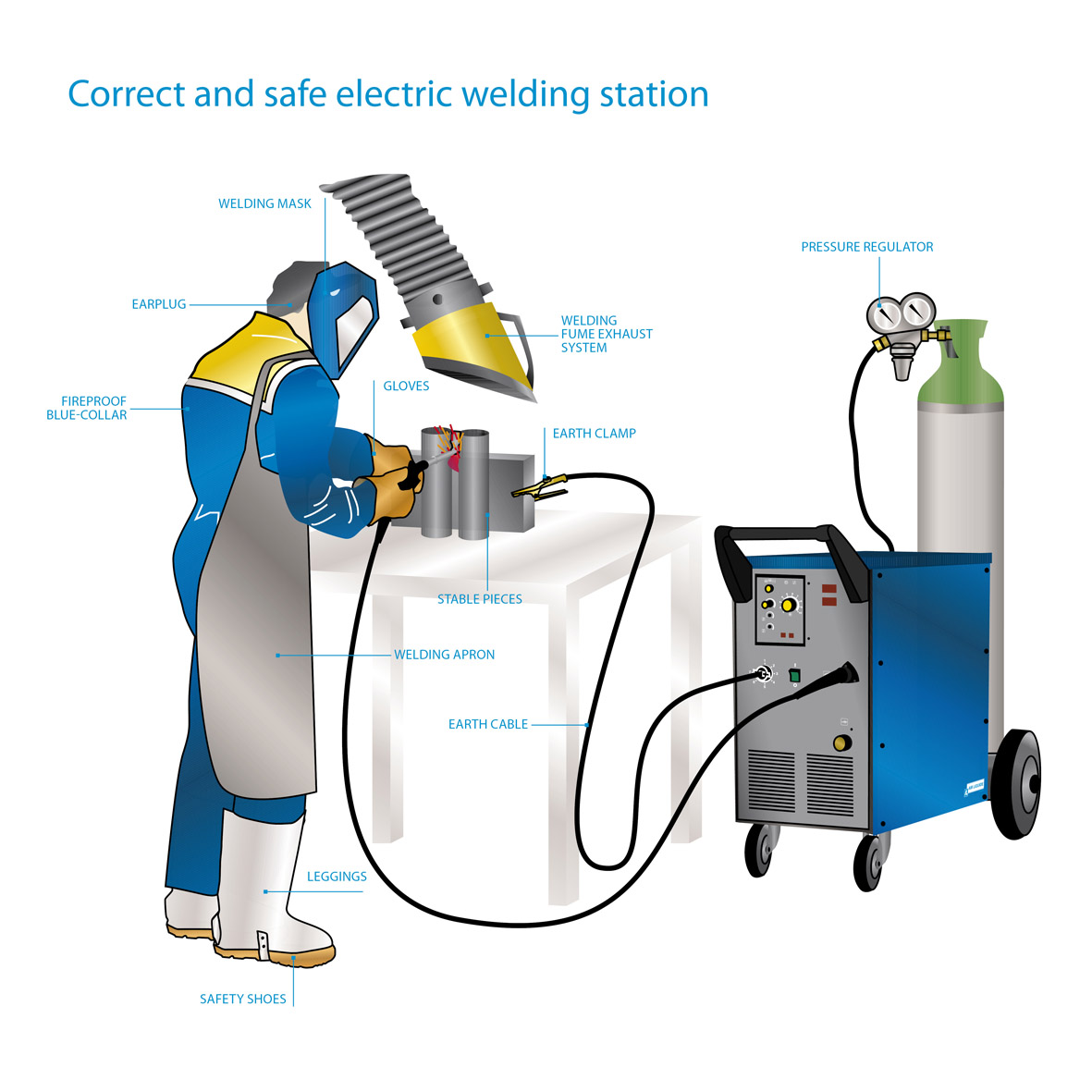 Arc welding station